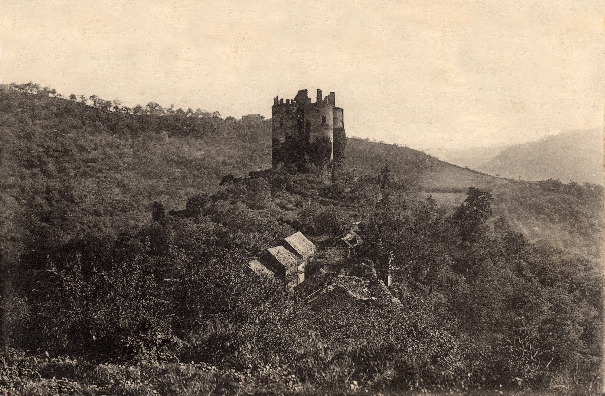 Old view of the Roumégous castle